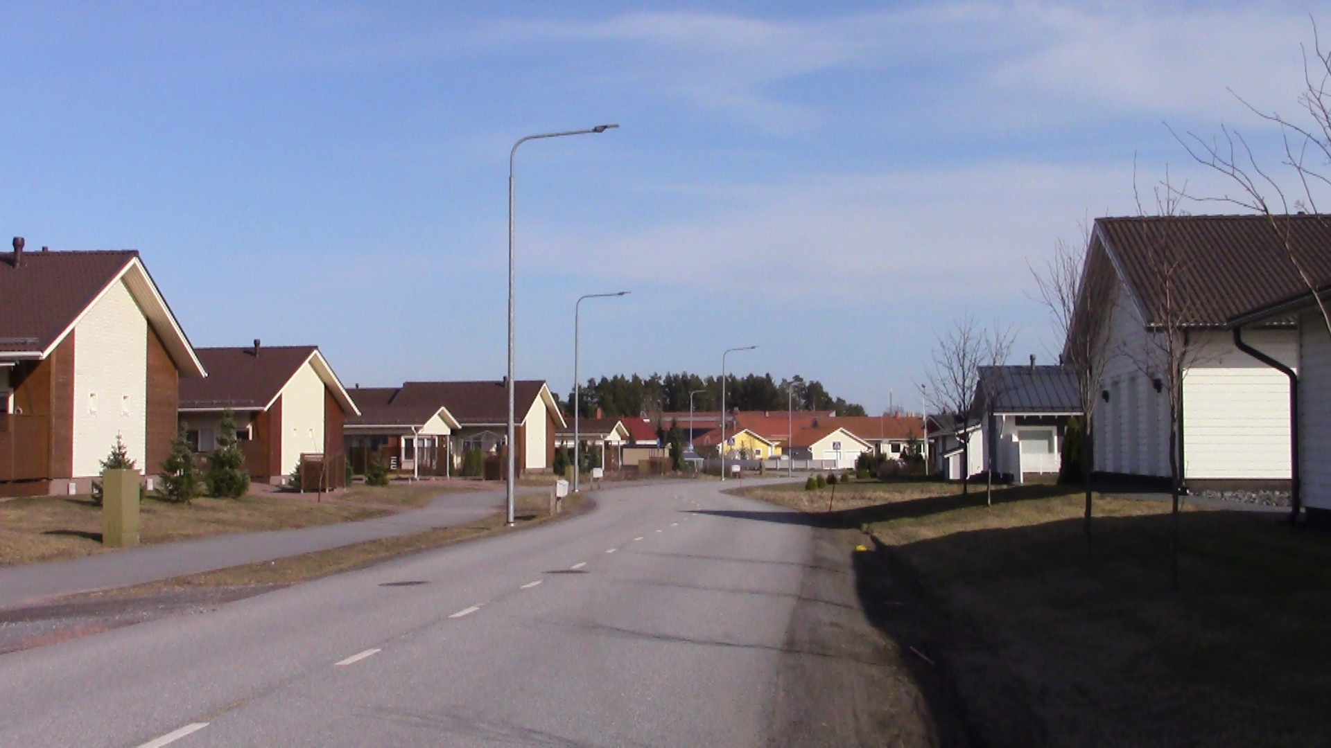 Newer area of Tuorsniemi suburb as seen from Alinentie in Pori, Finland.